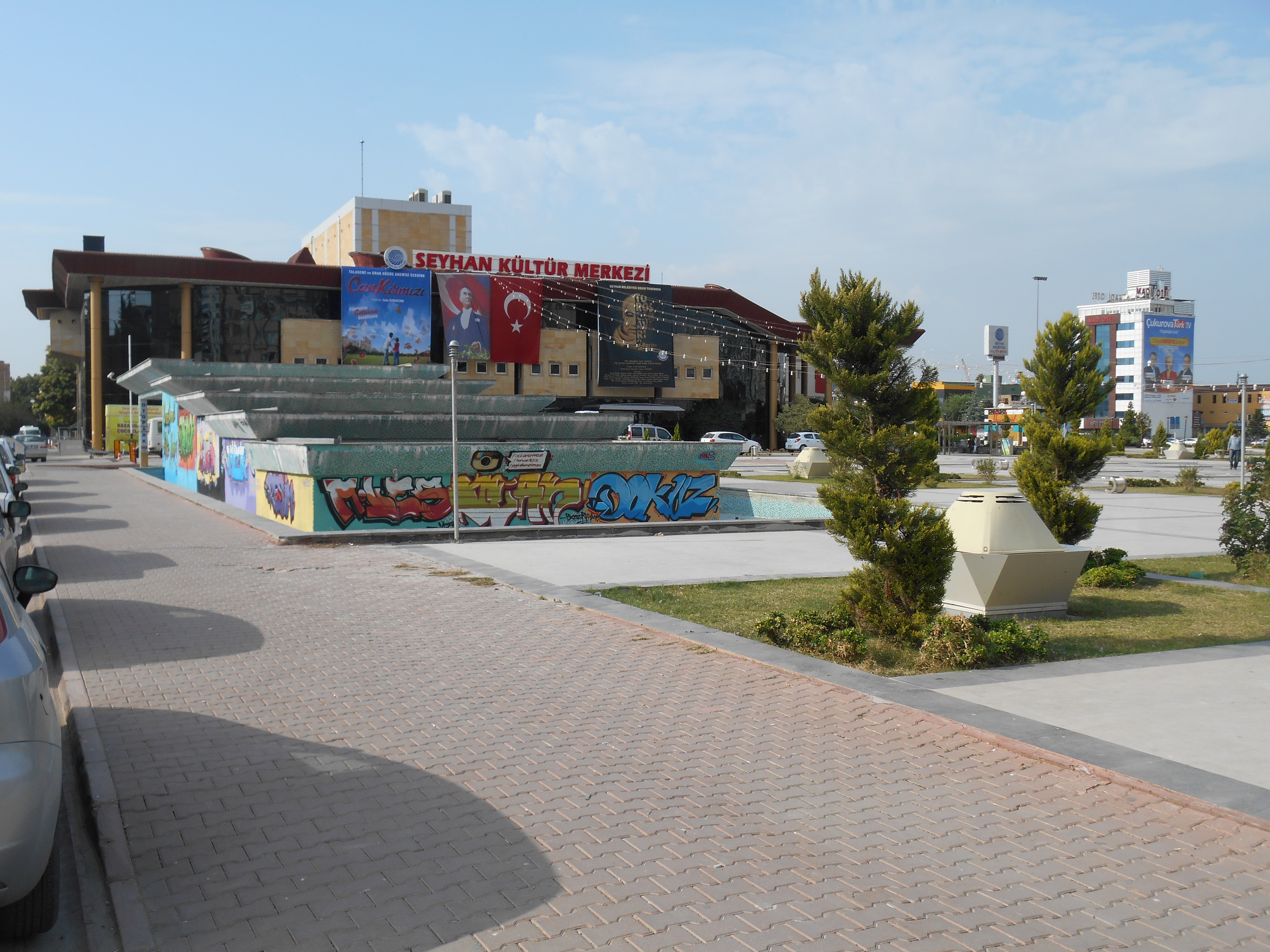 East view